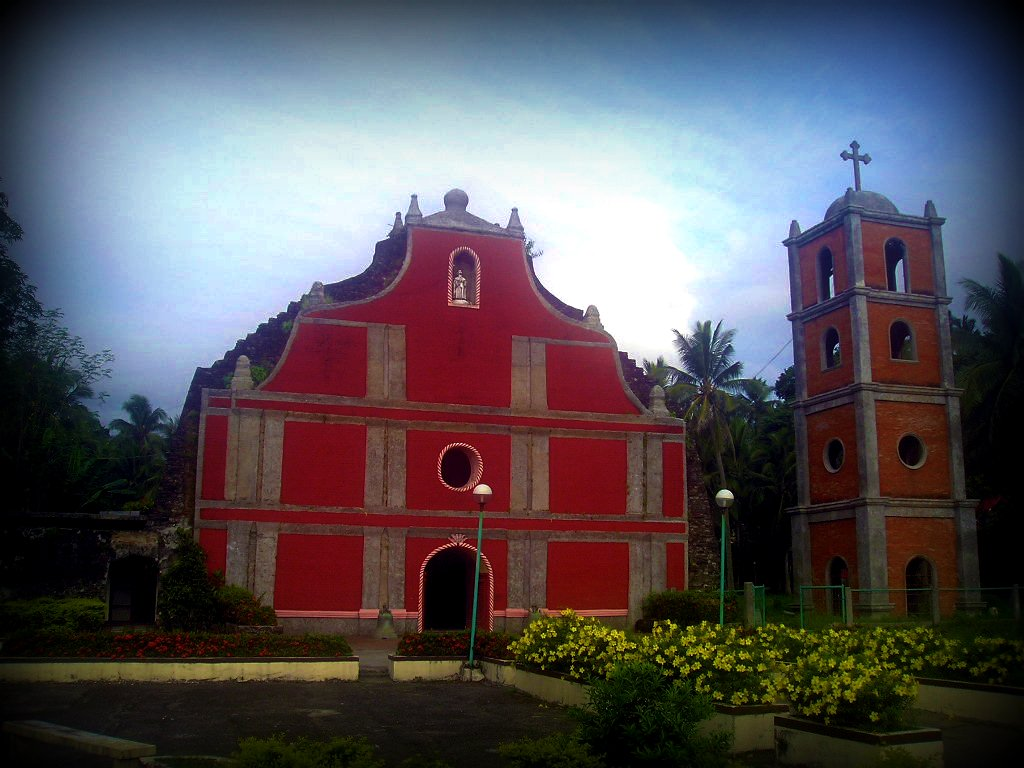 The church was built from 1614 to 1617 in the old pueblo of Massi, damaged by an earthquake in 1721 and later restored. It is one of the oldest to be intact in Cagayan Valley because it is supposed to be earthquake-proof having been built on top of a solid rock with a diameter of 1 to 2 kilometers below the ground.